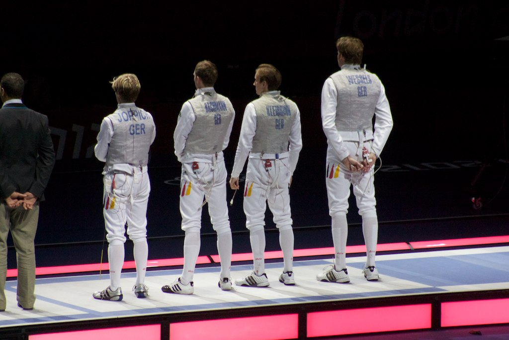 Fencing at the 2012 Summer Olympics